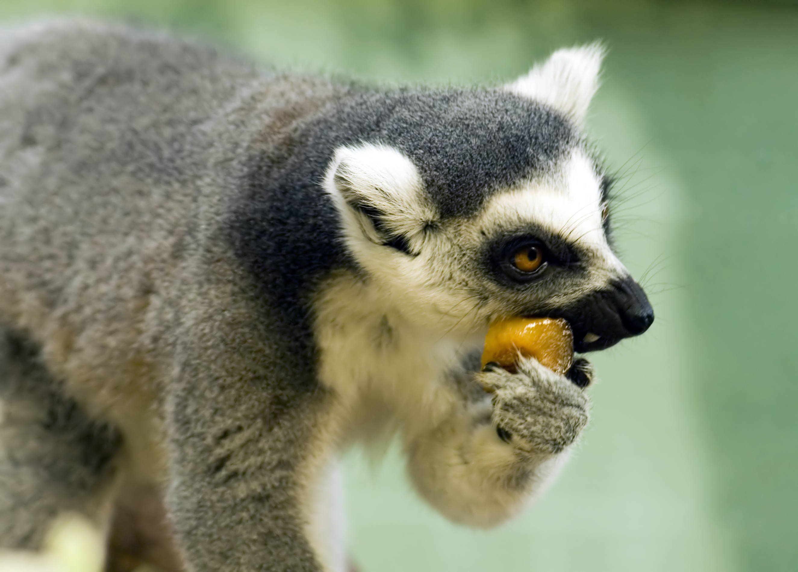 A Ring-Tailed Lemur eating fruit at Bristol Zoo.